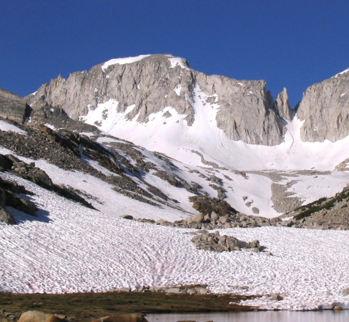 Mount Abbot, 13,704 feet (4,177 m) — in the central Sierra Nevada, California.